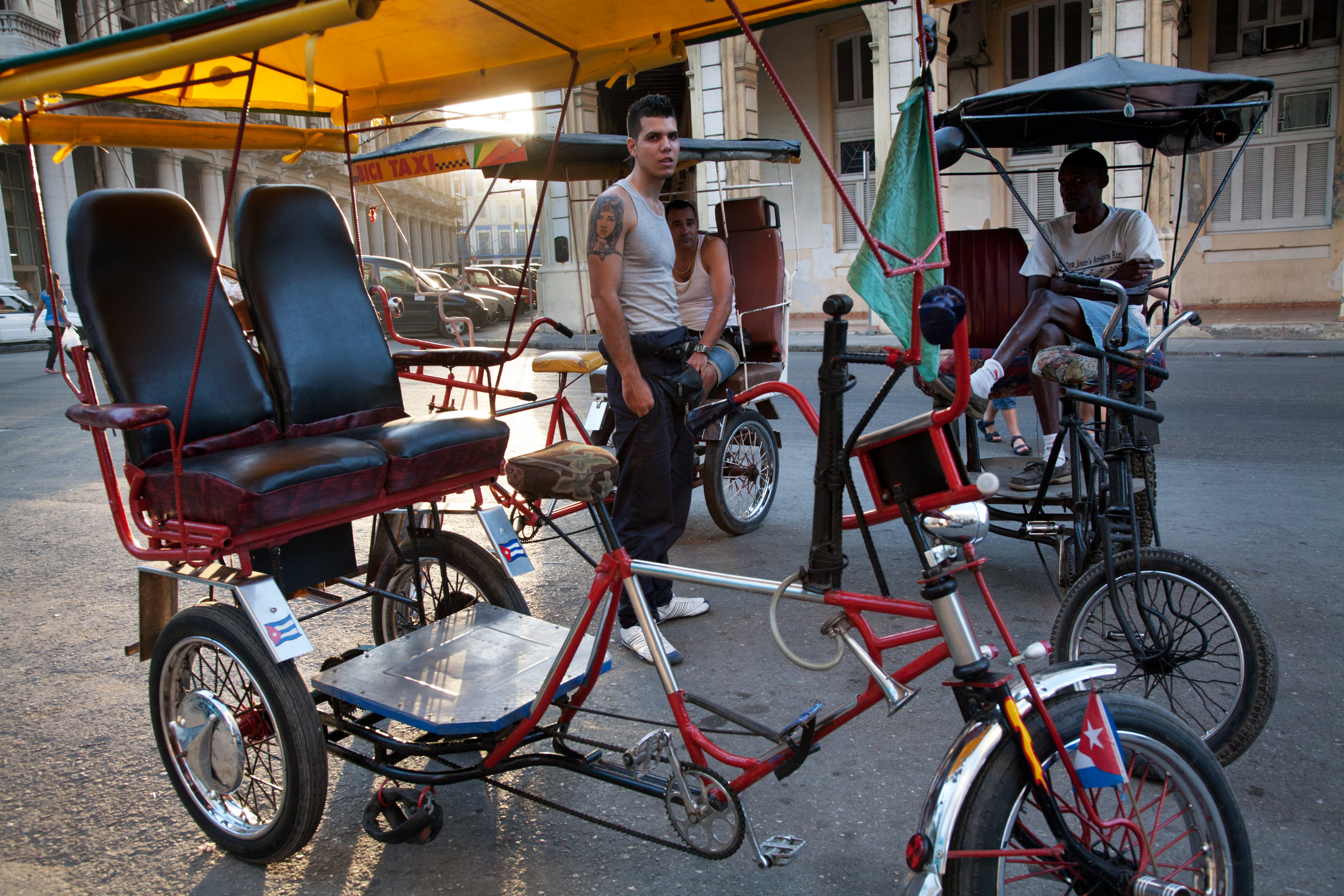 Street life: three "Bicitaxis" at sunset. Havana (La Habana), Cuba